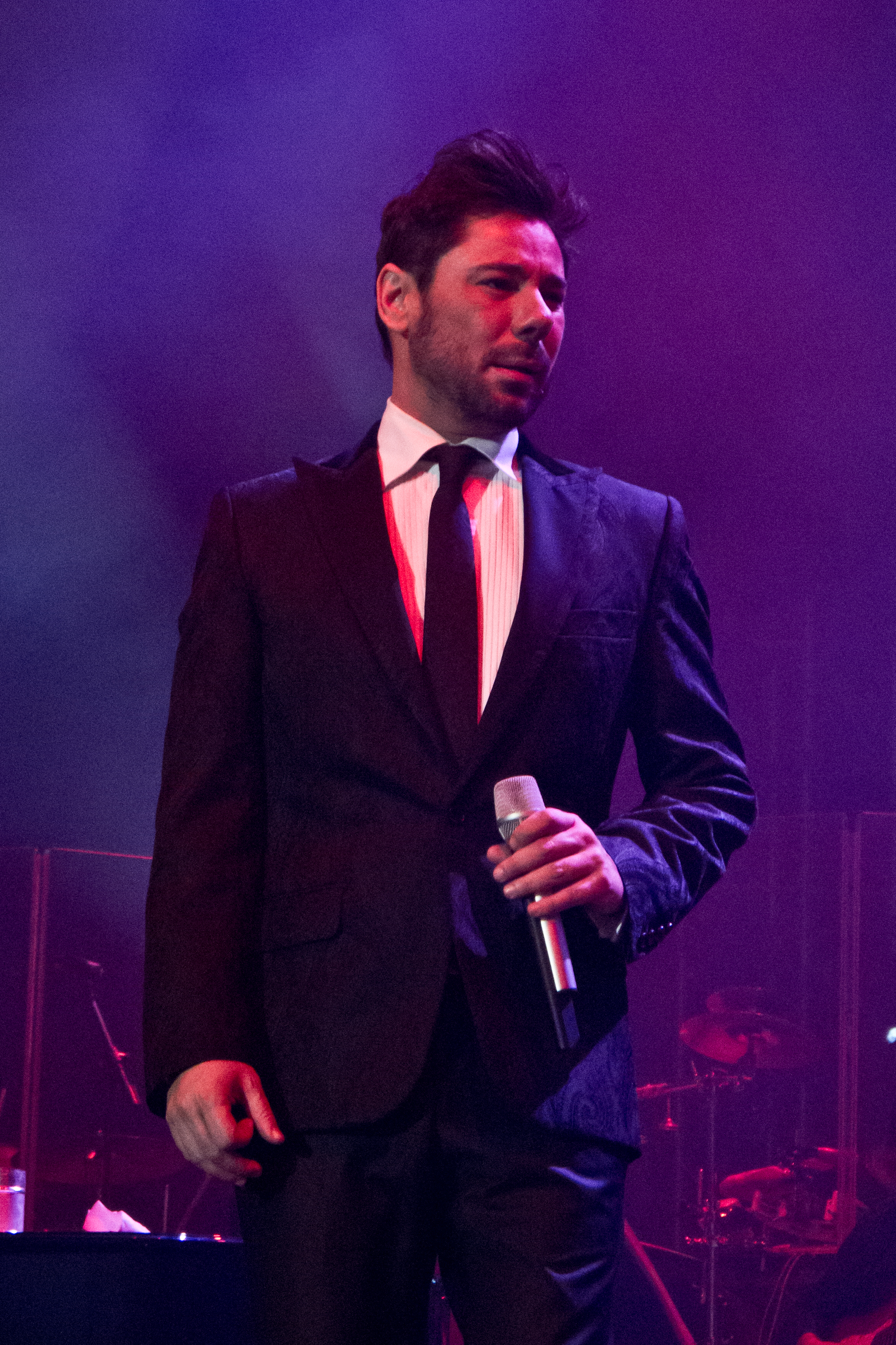 Miguel Poveda during a concert with Isabel Pantoja in Madrid in 2012.